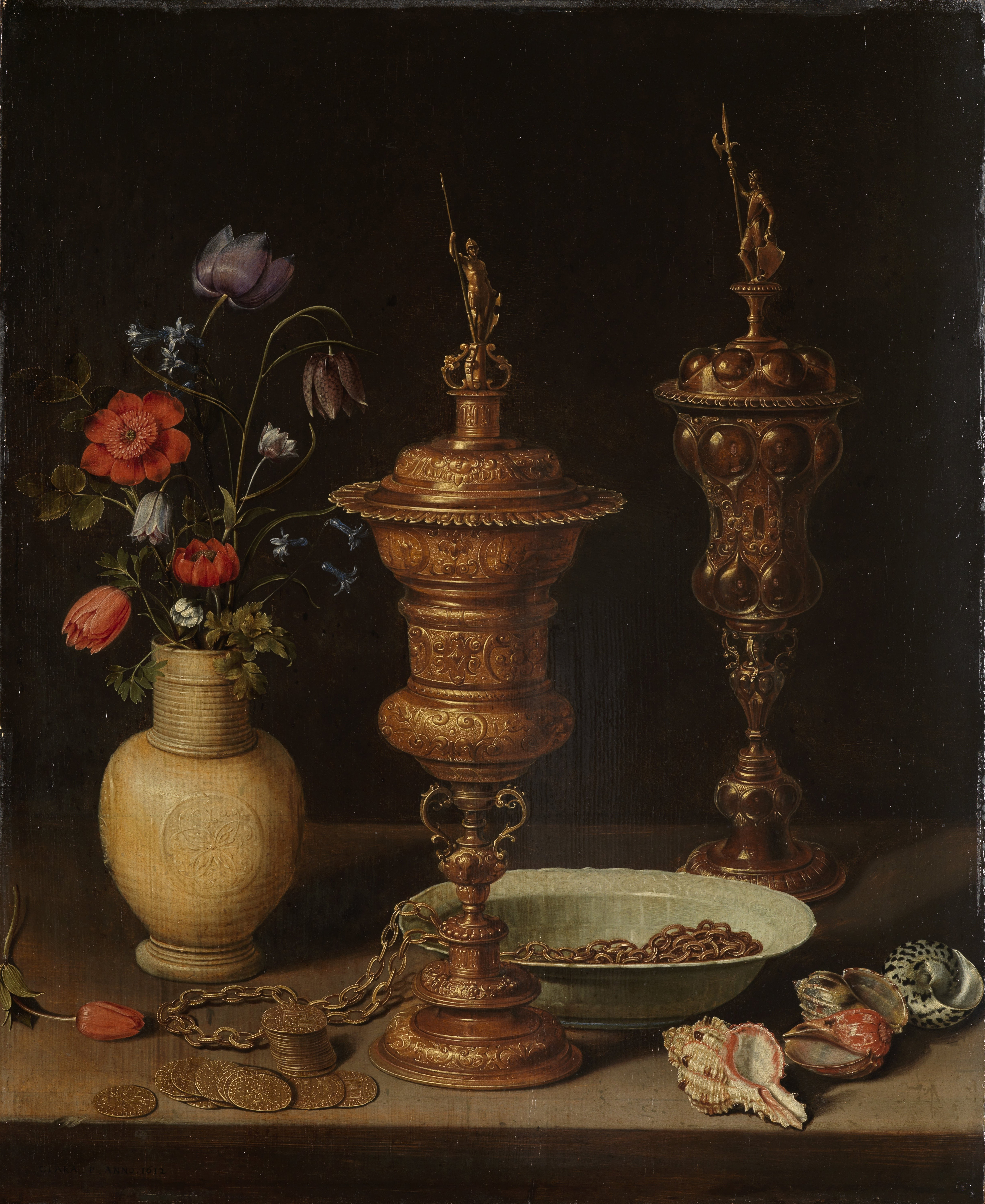 Still Life with Flowers and Gold Cups of Honour